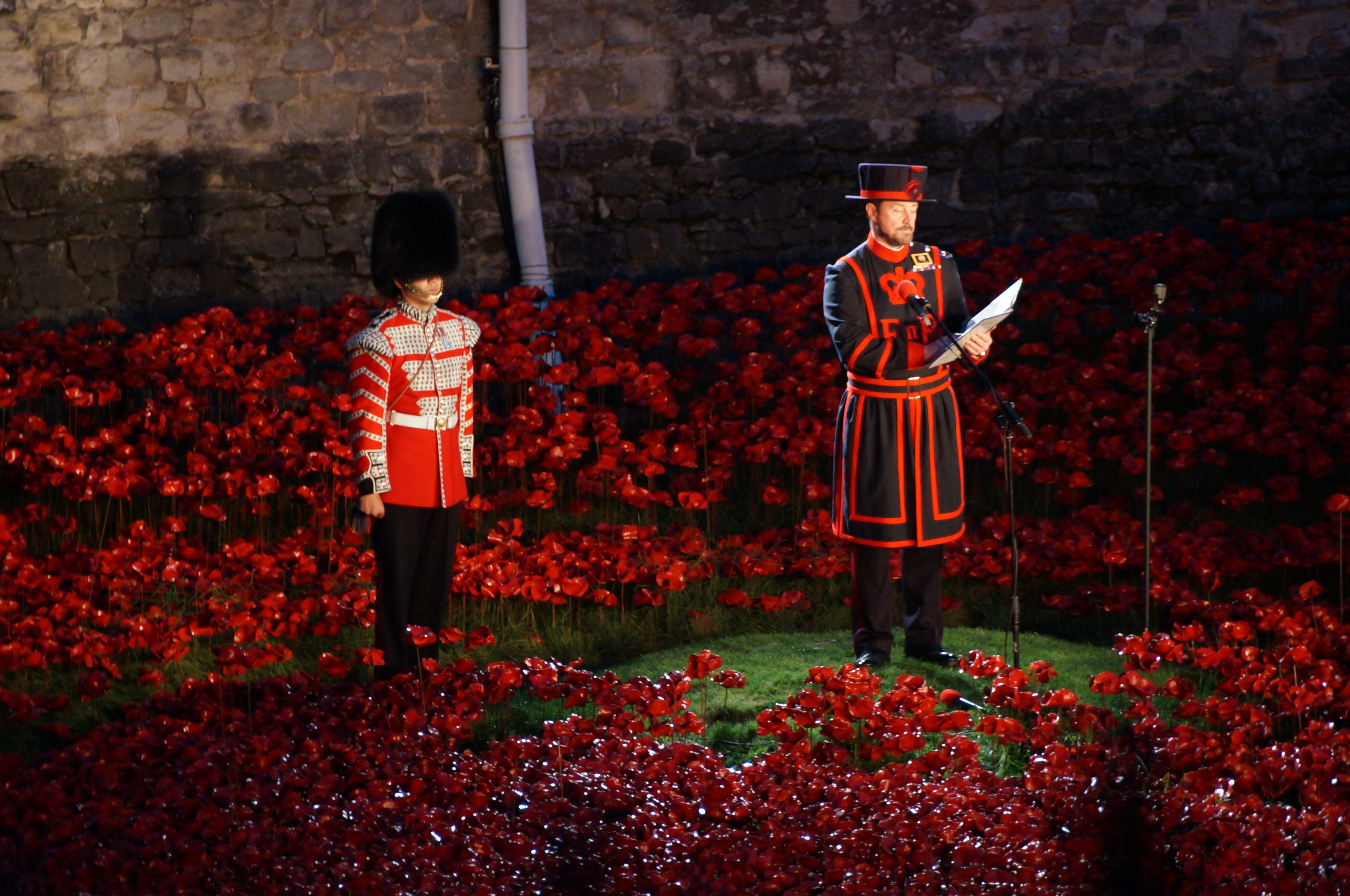 Yeoman Warder reading from the roll of honour alongside a bugler who will sound the Last Post"" among ceramic poppies in the temporary art installation Blood Swept Lands and Seas of Red at the Tower of London.